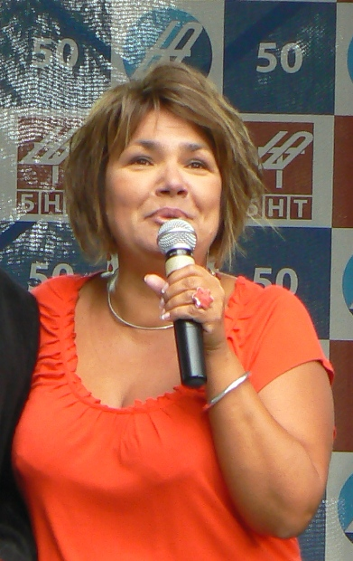 Bulgarian actress and TV journalist Martina Vachkova